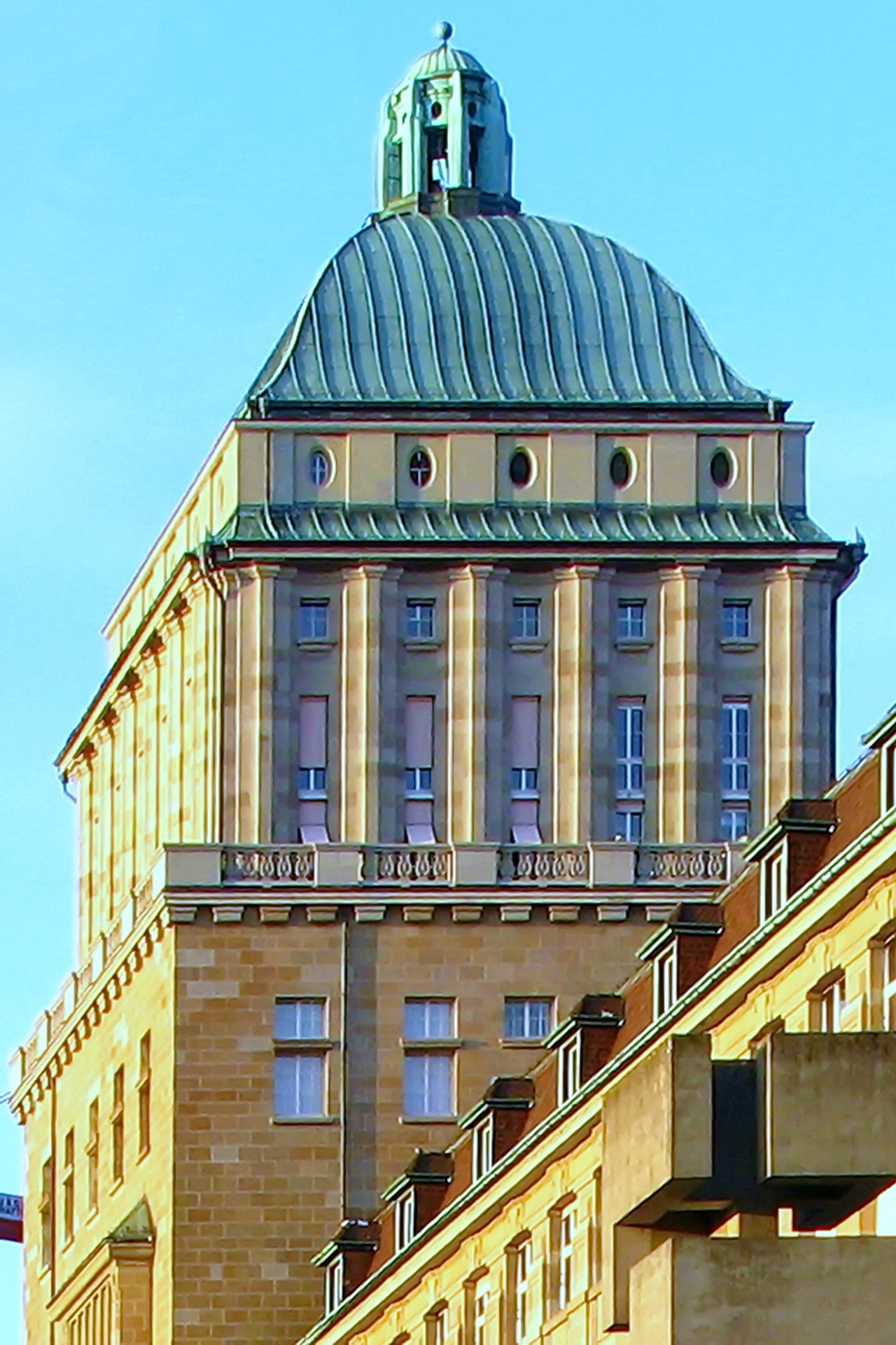 University of Zürich (Switzerland) main building as seen from the south